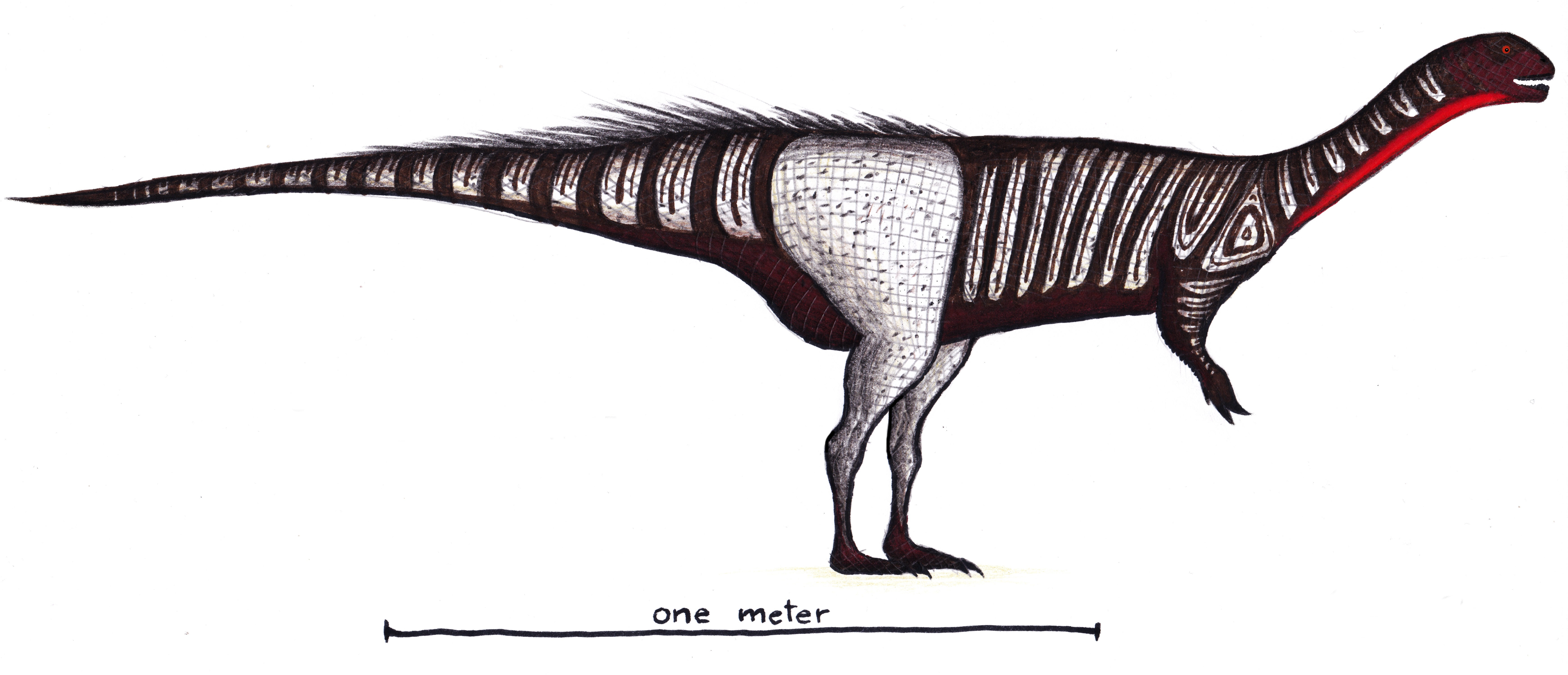 Restoration